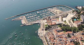 Edited version of Wikipedia File:Amazing view from 1000 feet over Cascais Bay (9429653569).jpg